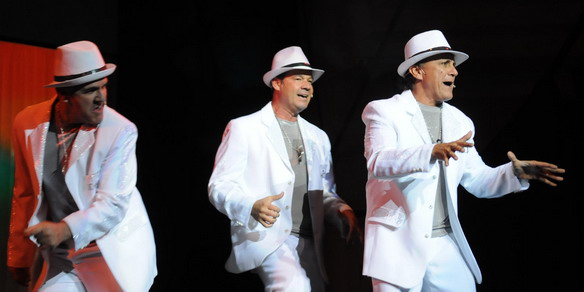 Midachi se convirtió en el trío mas famoso de Argentina